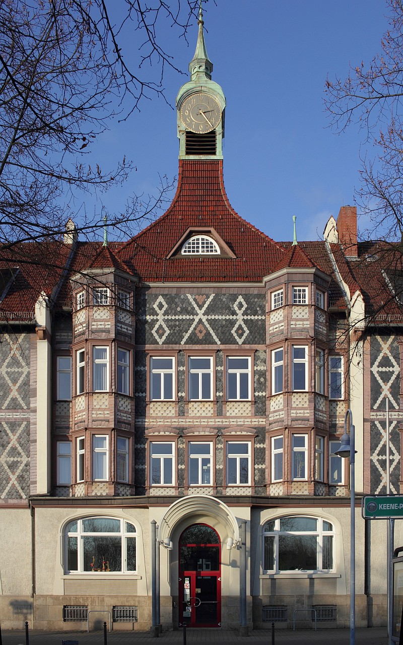 New Town Hall in Einbeck, Germany (Prussian barracks building from 1868; since 1907 catalogue company August Stukenbrok; bicycle company Heidemann; since 1996 administrative center of the town)